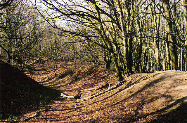 Payhembury: Hembury hillfort. Ditch and rampart on the eastern side of the Iron Age hillfort, now somewhat overgrown. This was originally a Neolithic site. Excavations were made here by Dorothy Liddell in 1930-35 and by Professor Malcolm Todd in 1980-83